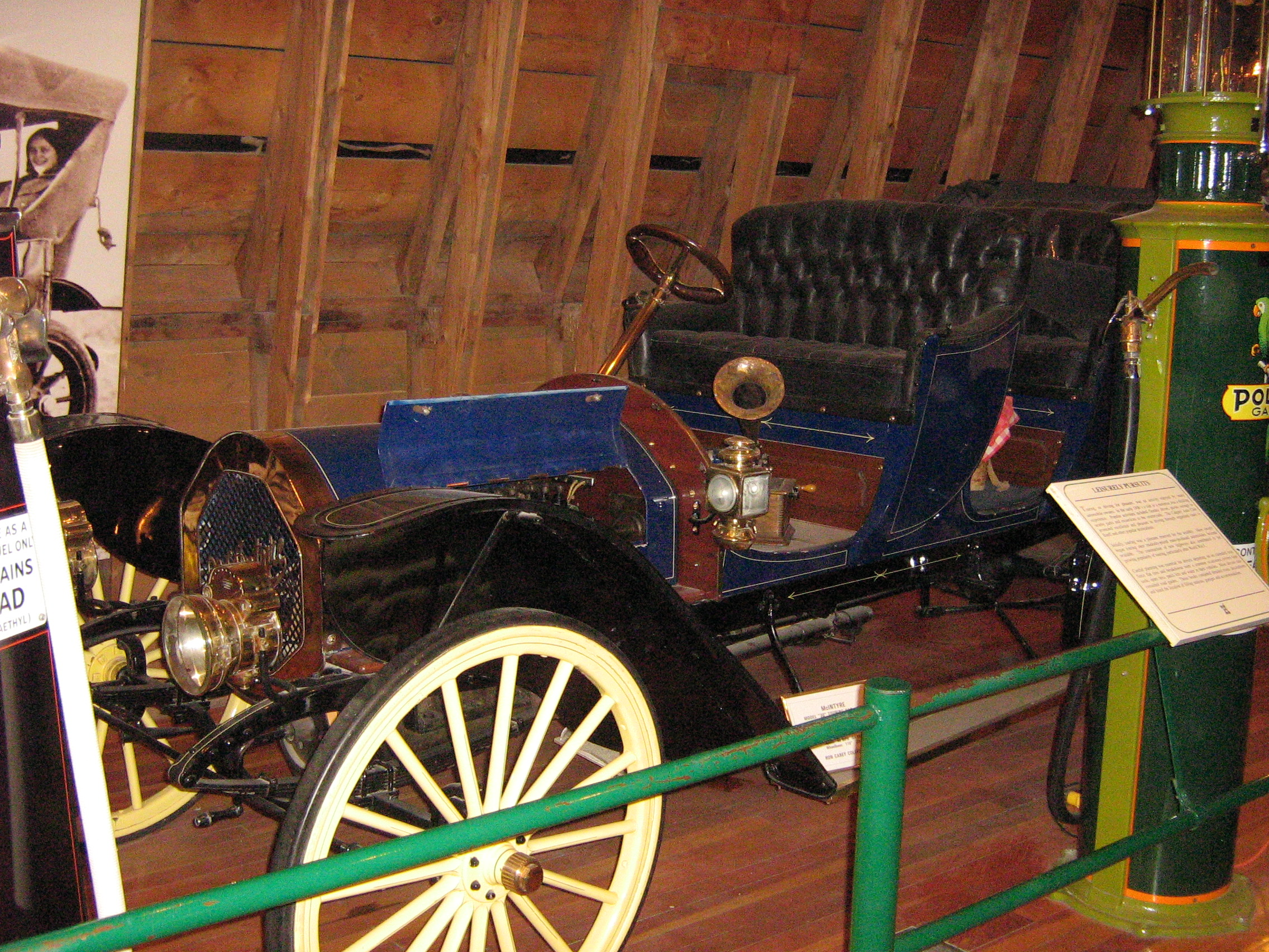 1909 McIntyre Model 30 Touring